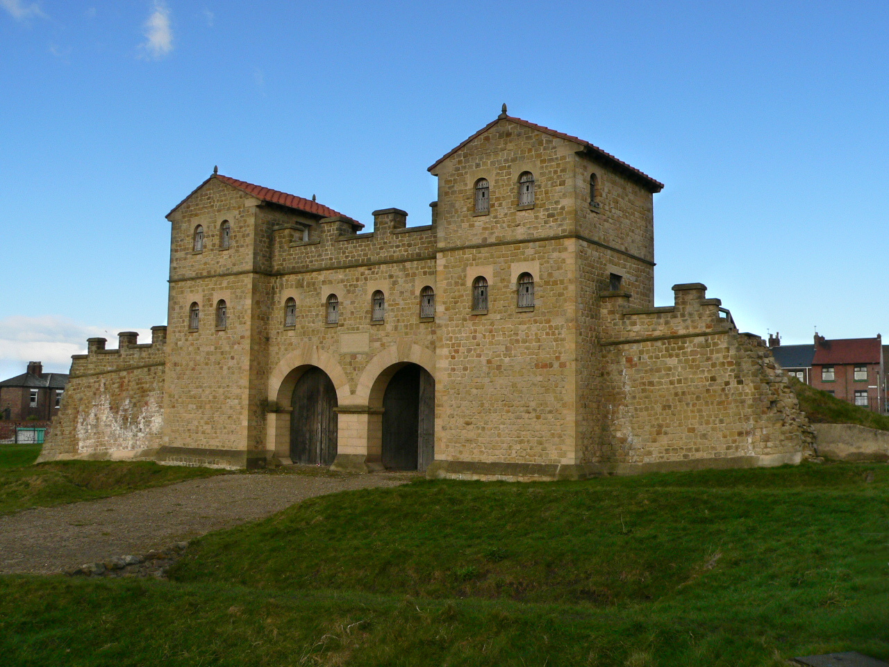 The reconstructed West gate at Arbeia Roman Fort in South Shields, near Newcastle upon Tyne.